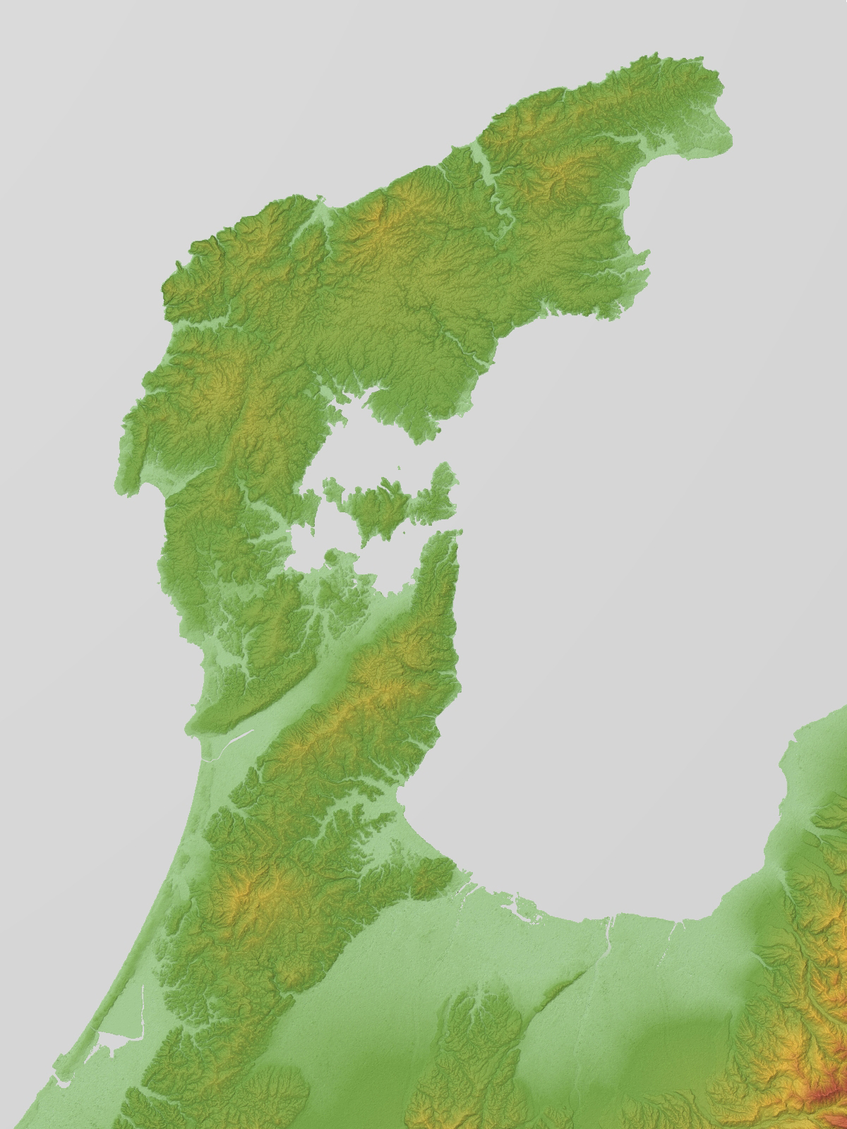 Noto Peninsula in Ishikawa Prefecture, Honshu, Japan.